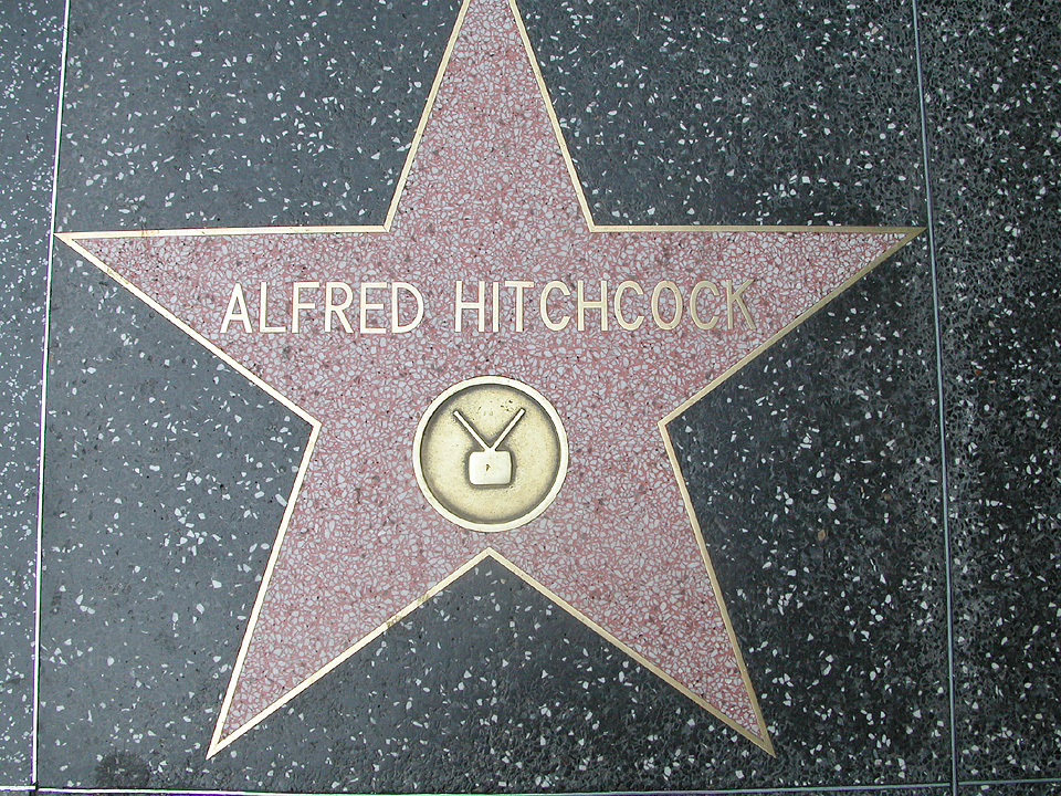 Alfred Hitchcock's star on the Hollywood Walk of Fame, Los Angeles (California)